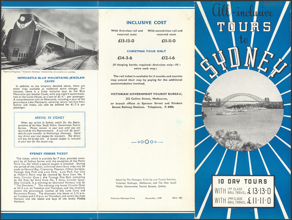 Series: NRS16410 - Albums of Travel and Advertising Brochures Title: All-inclusive Tours to Sydney (Victorian Railways) Dated: 01/11/1939 Item: [1A_51] Rights: More information about these records is on our catalogue, [ 16410 Many other photos in our collection are available to view and browse on our website using Photo Investigator].